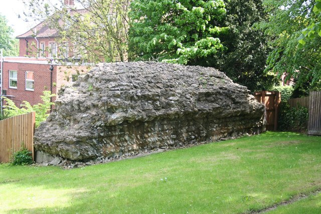 Remains of the Roman wall at Lincoln, England